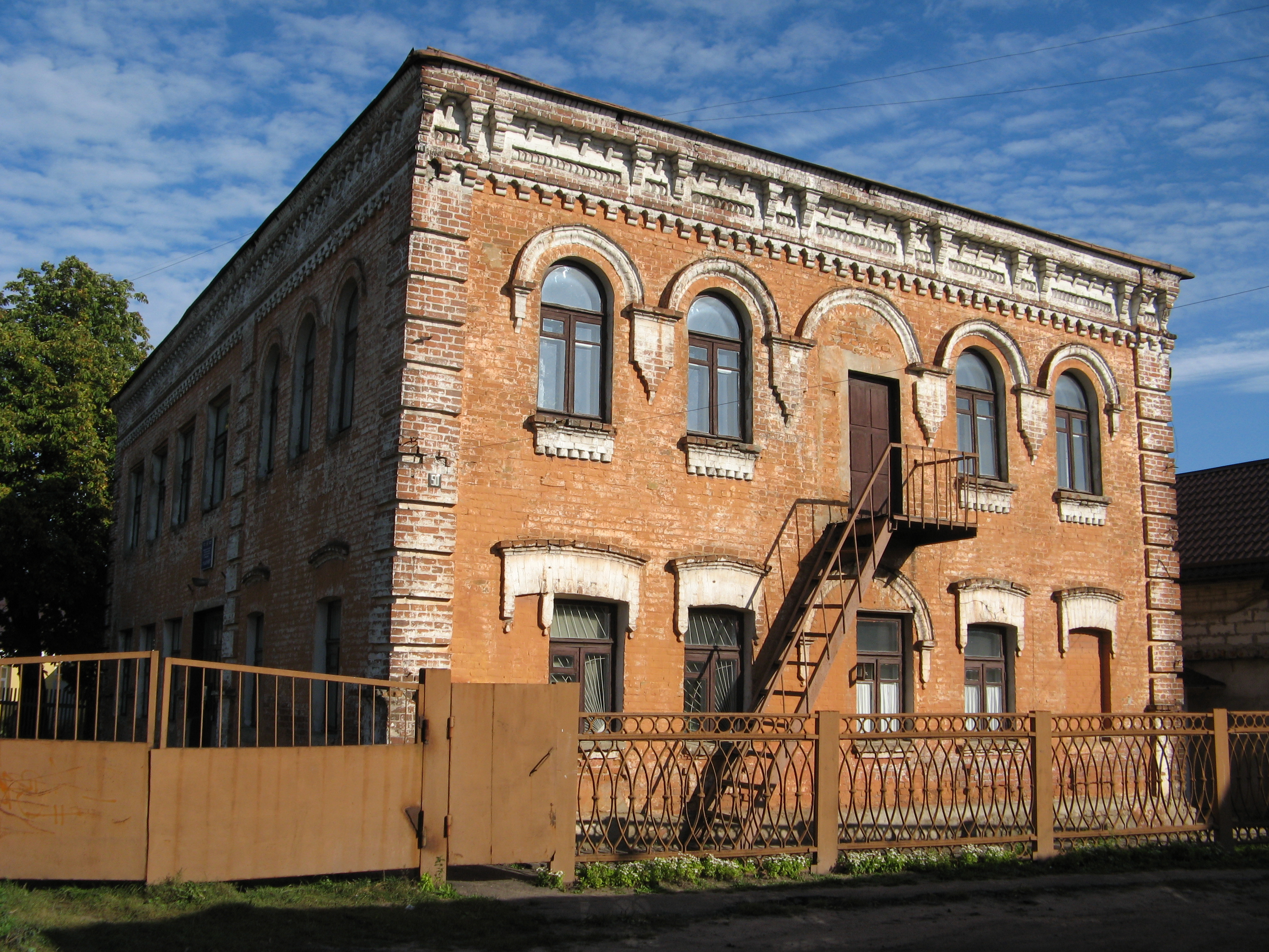 Synagogue on Dzierzynski str